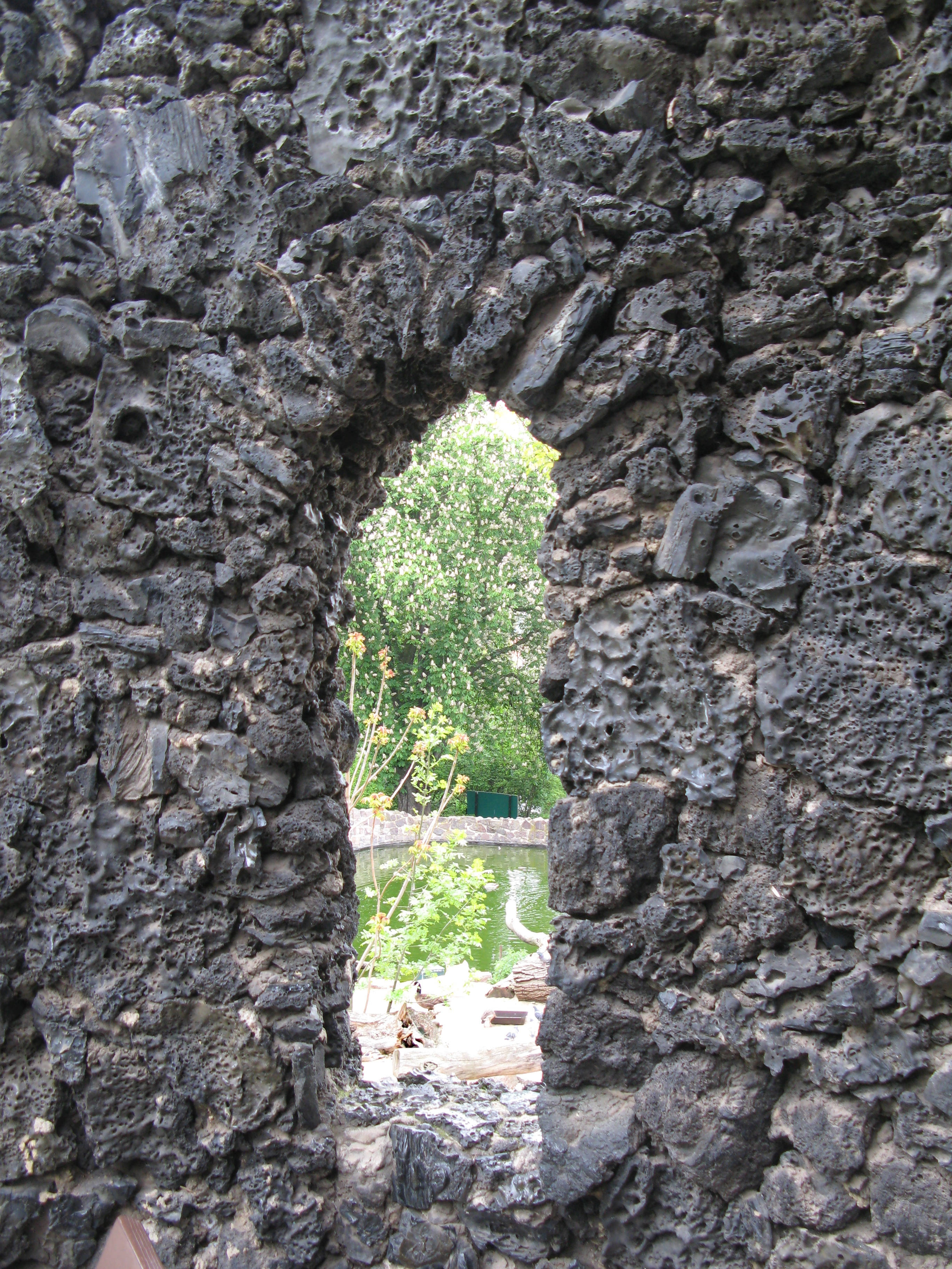 Zoological garden in Halle (Saale): Decorative, non-functional garden art building („Folly“) made from unshaped, relatively quickly solidified Mansfeld slag